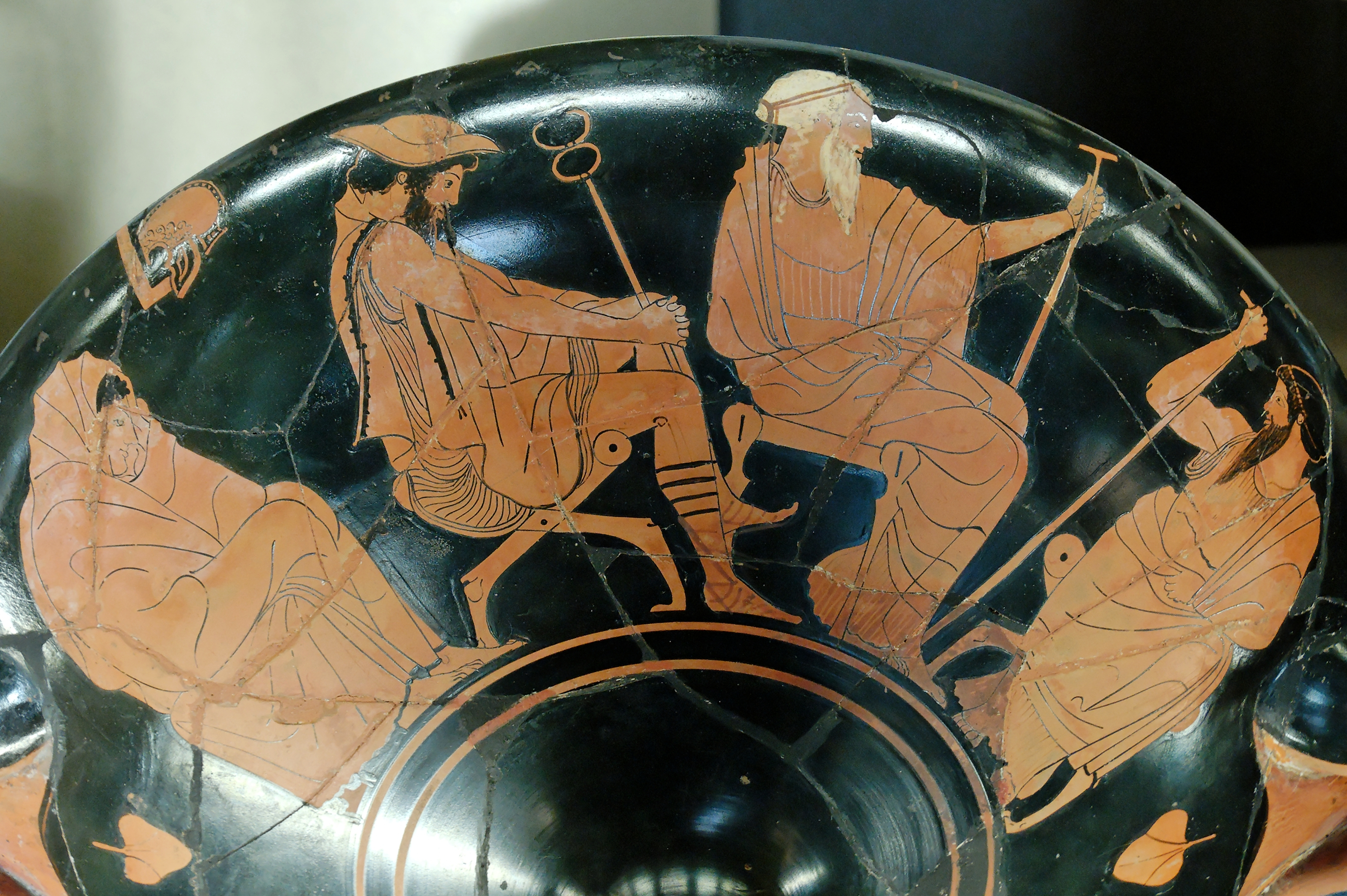 The embassy to Achilles (Book 9 of the Iliad): from left to right, Achilles (sulking, wrapped in his cloak), Hermes (with the caduceus), Phoenix (white-haired) and Odysseus. Detail of an Attic red-figure cup, ca. 480 BC–470 BC. From Vulci.